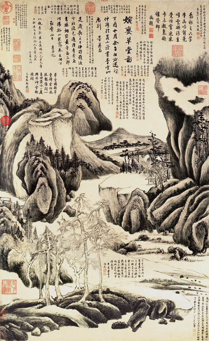 Wanluan Thatched Hall, hanging scroll, ink and light colors on paper 婉孌草堂図 紙本墨画